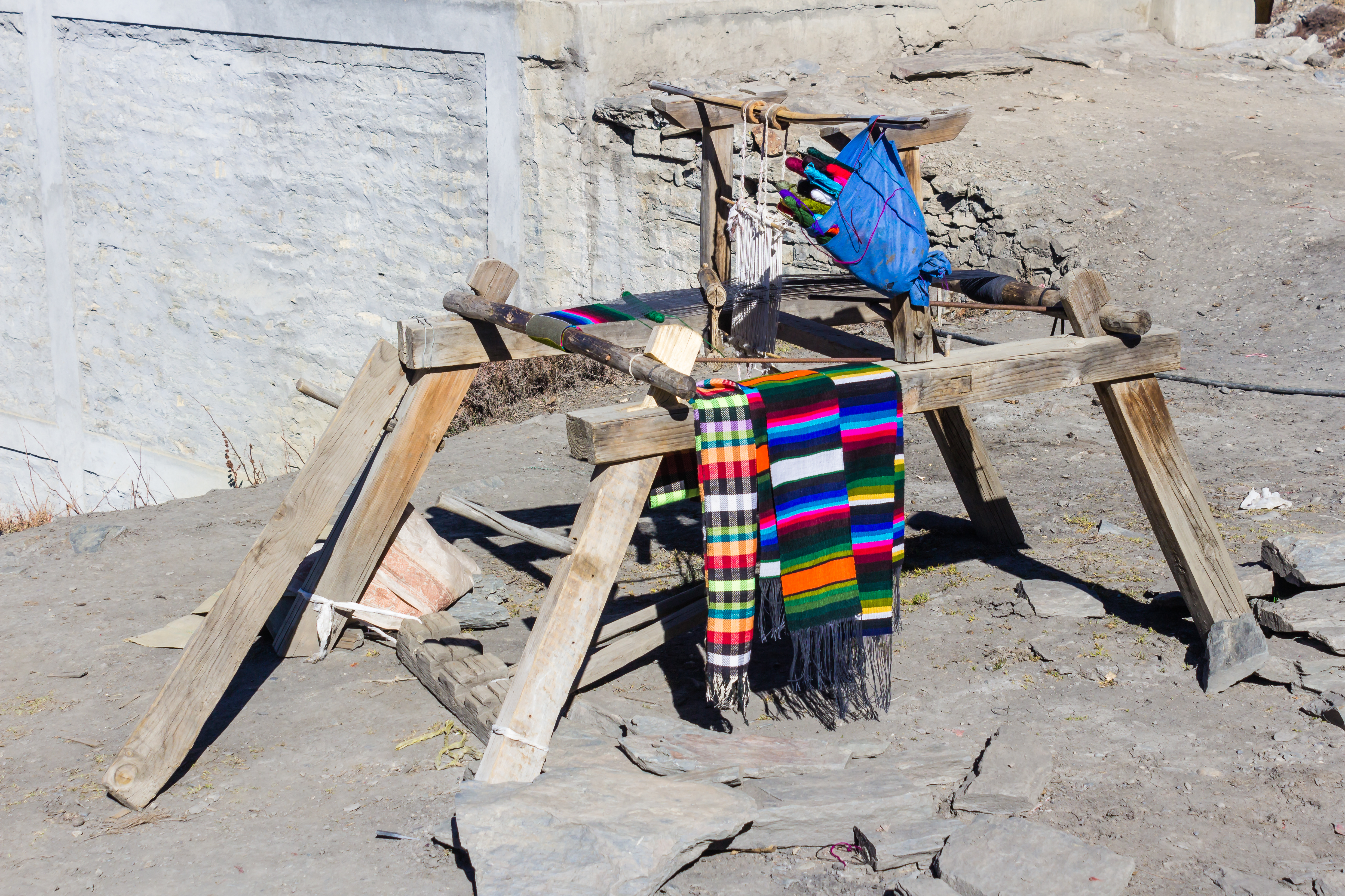 Ranipauwa is a town in central Nepal in the district of Mustang, formerly in the Kingdom of Mustang, about 12'140 ft. / 3'700 meters above sea level. Ranipauwa with its numerous hotels, guesthouses, cafes, restaurants and souvenir-shops is a stop-over for both Hindu and buddhist pilgrims from all over the world on their way to the Temple of Muktinath as well as for trekkers on the popular Annapurna Circuit that runs around the Annapurna-Himal. When trekking clockwise, Ranipauwa is the last port of call before crossing the Thorong-La-pass (17'769 ft. / 5'416 meters above sealevel).